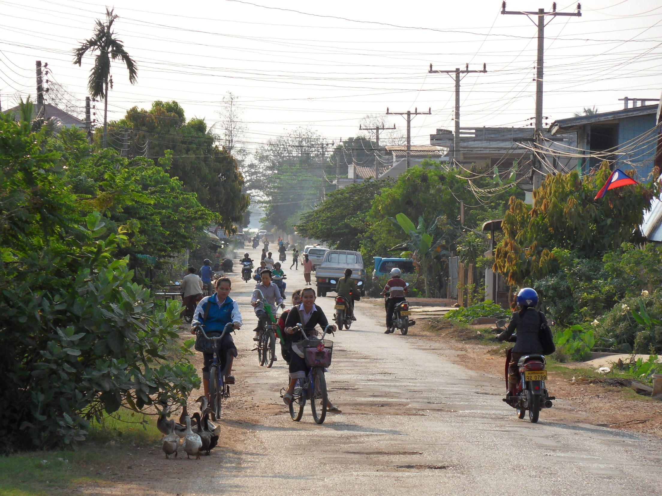 a street in Savannakhet, Laos, february 2010